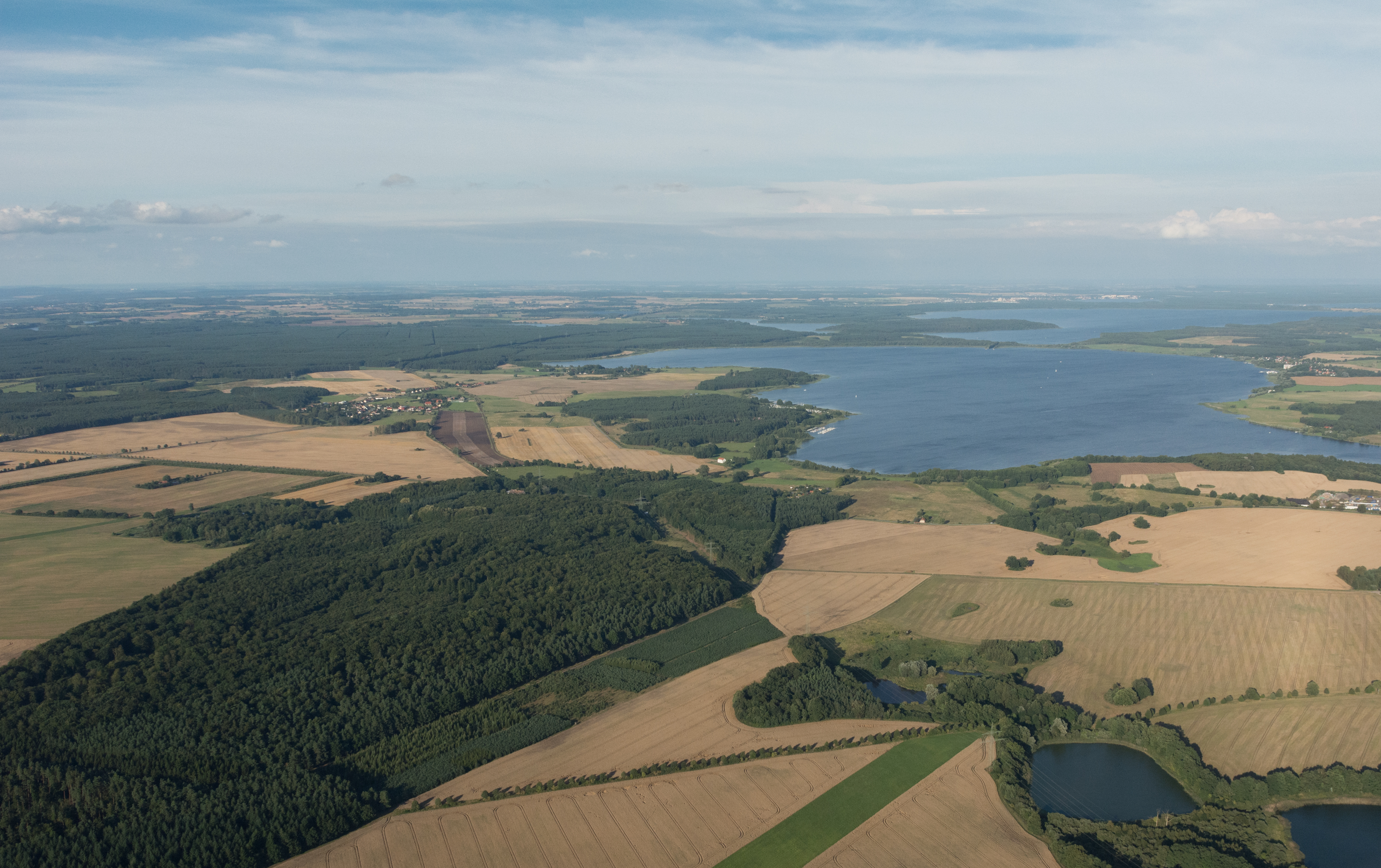 Fleesensee mit Feldern im Vordergrund The making of this document was supported by the Community-Budget of Wikimedia Germany.